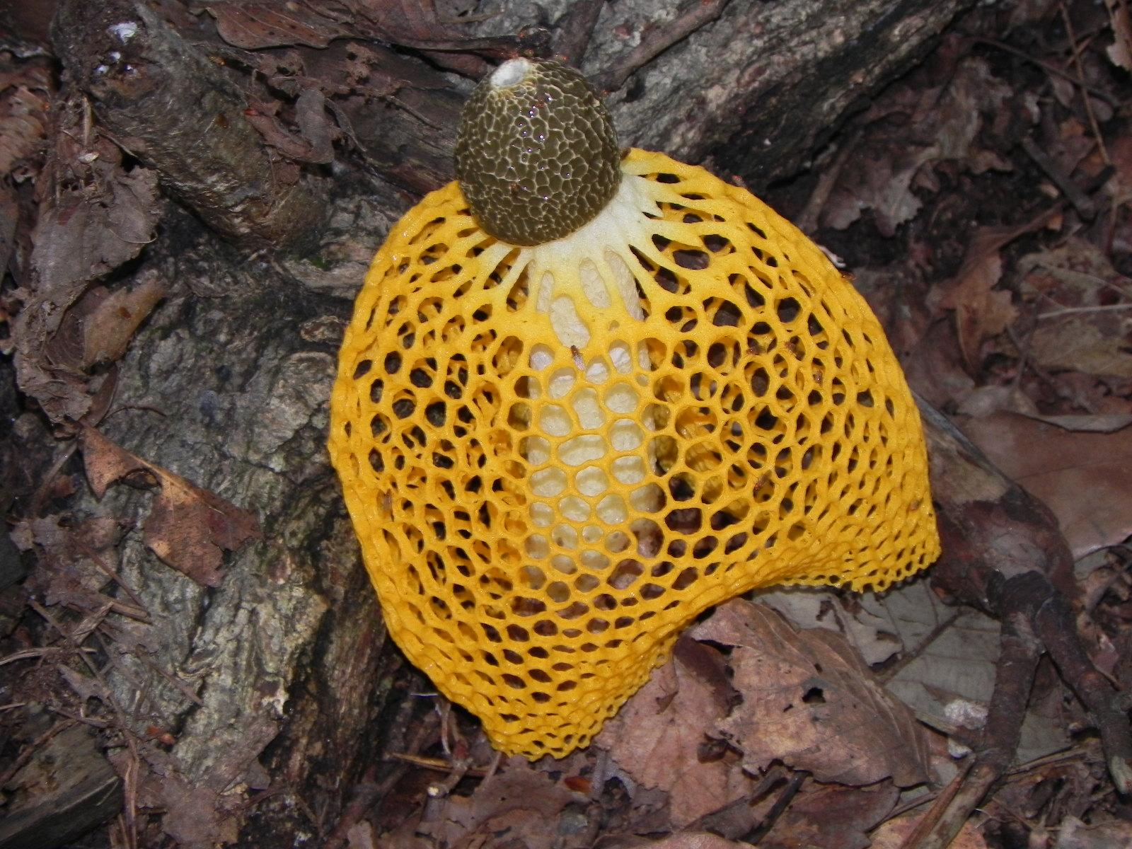 Phallus mushroom photographed on Machasan in Kyonggi province, Republic of Korea at the end of the monsoon season in late July